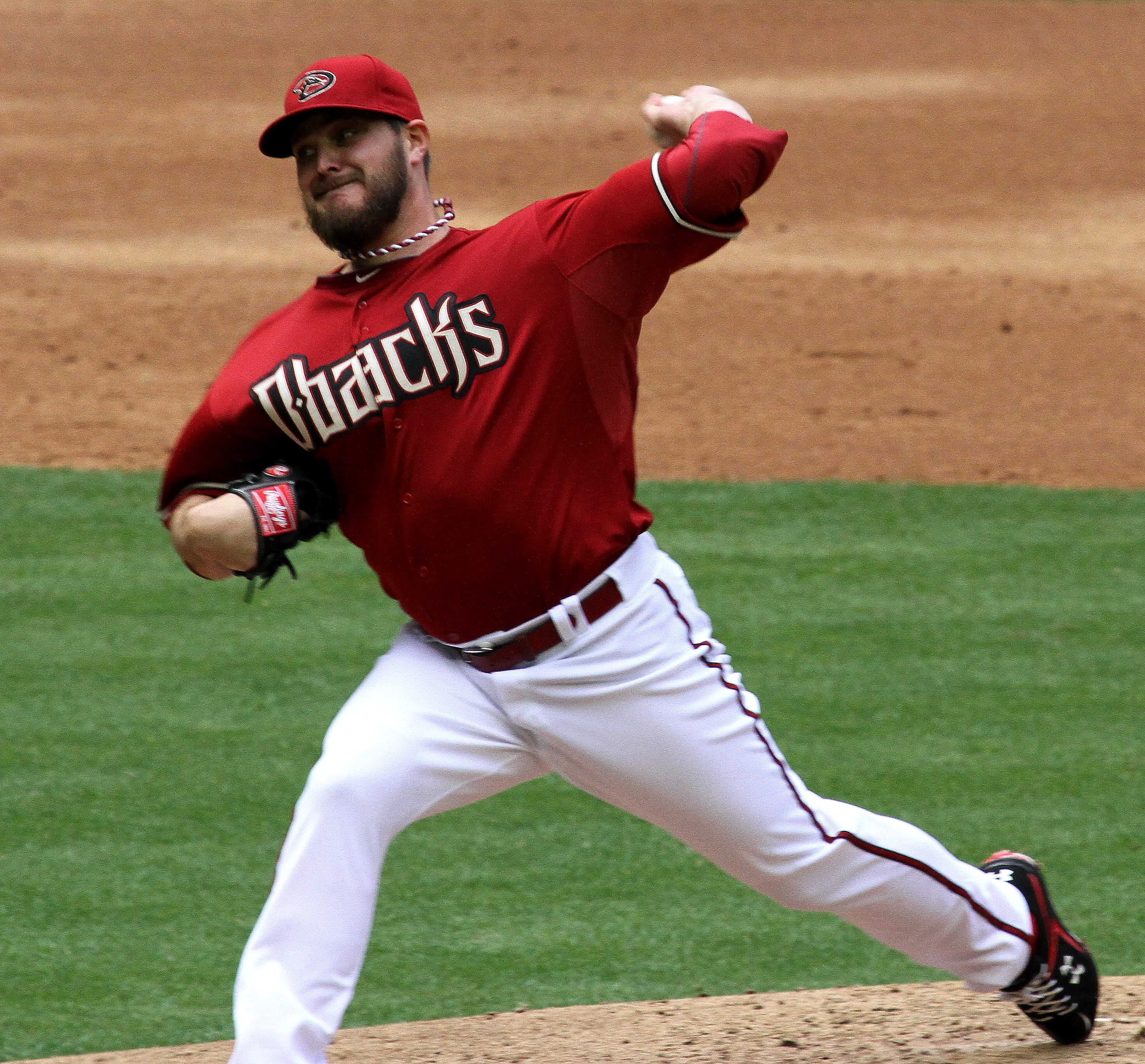 Wade Miley (4) 4-10-13 - c